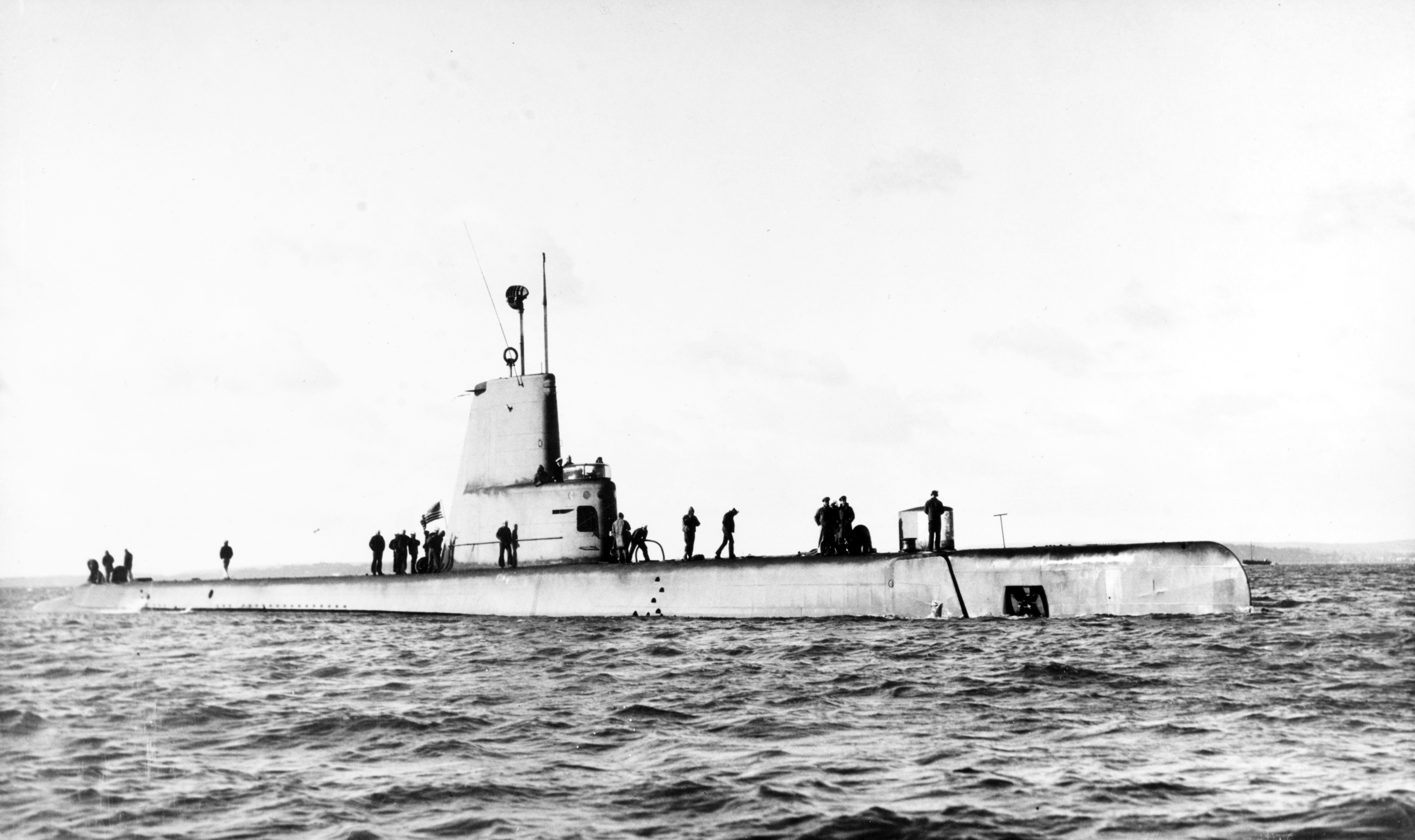 The U.S. Navy submarine USS Cochino (SS-345) leaving Portsmouth, Hampshire (UK), for the Barents Sea, circa in July 1949. Cochino was sunk on 25 August 1949, following a battery explosion while operating off Norway.